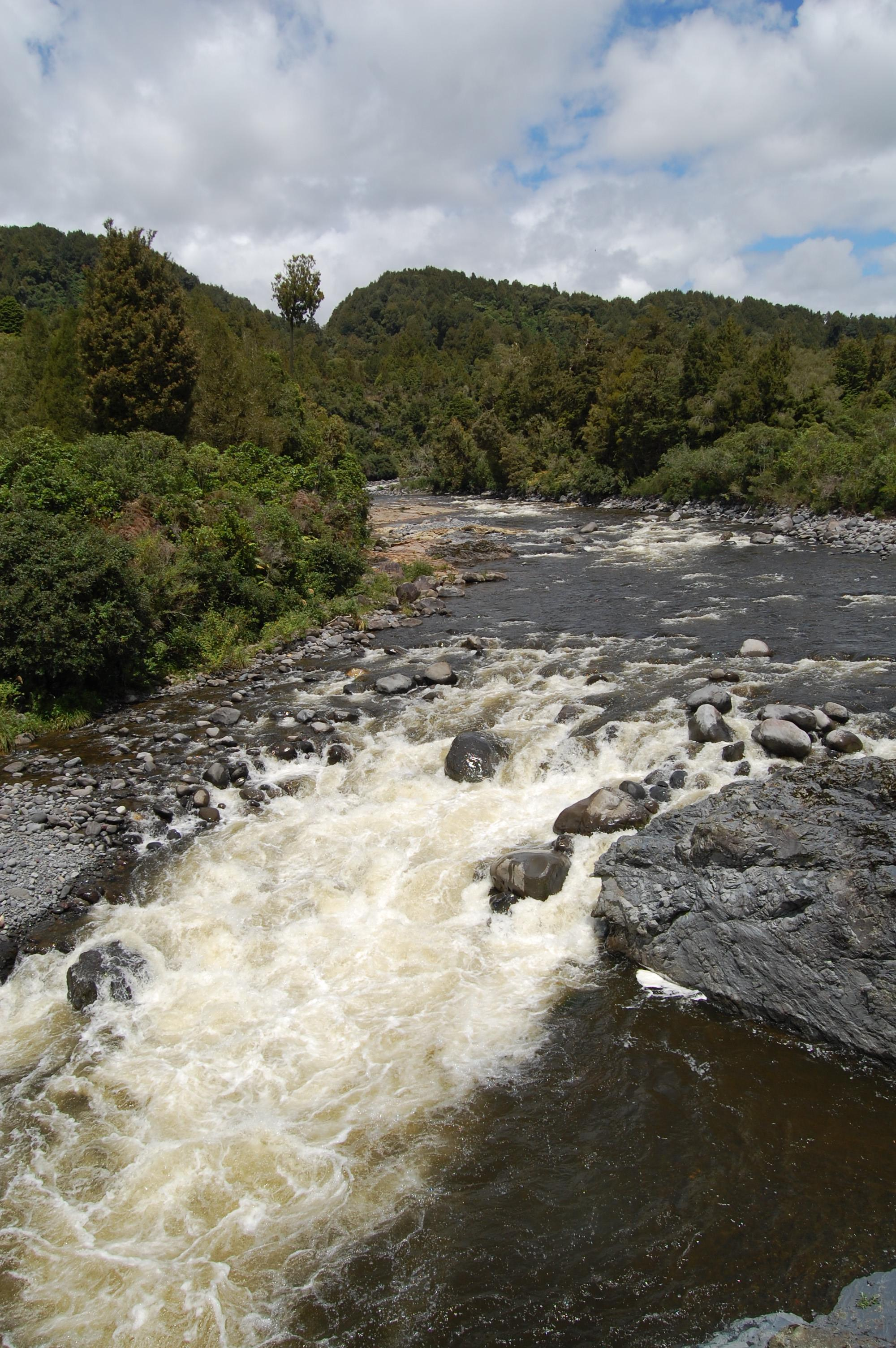 Whapakapa River near Owhango, New Zealand